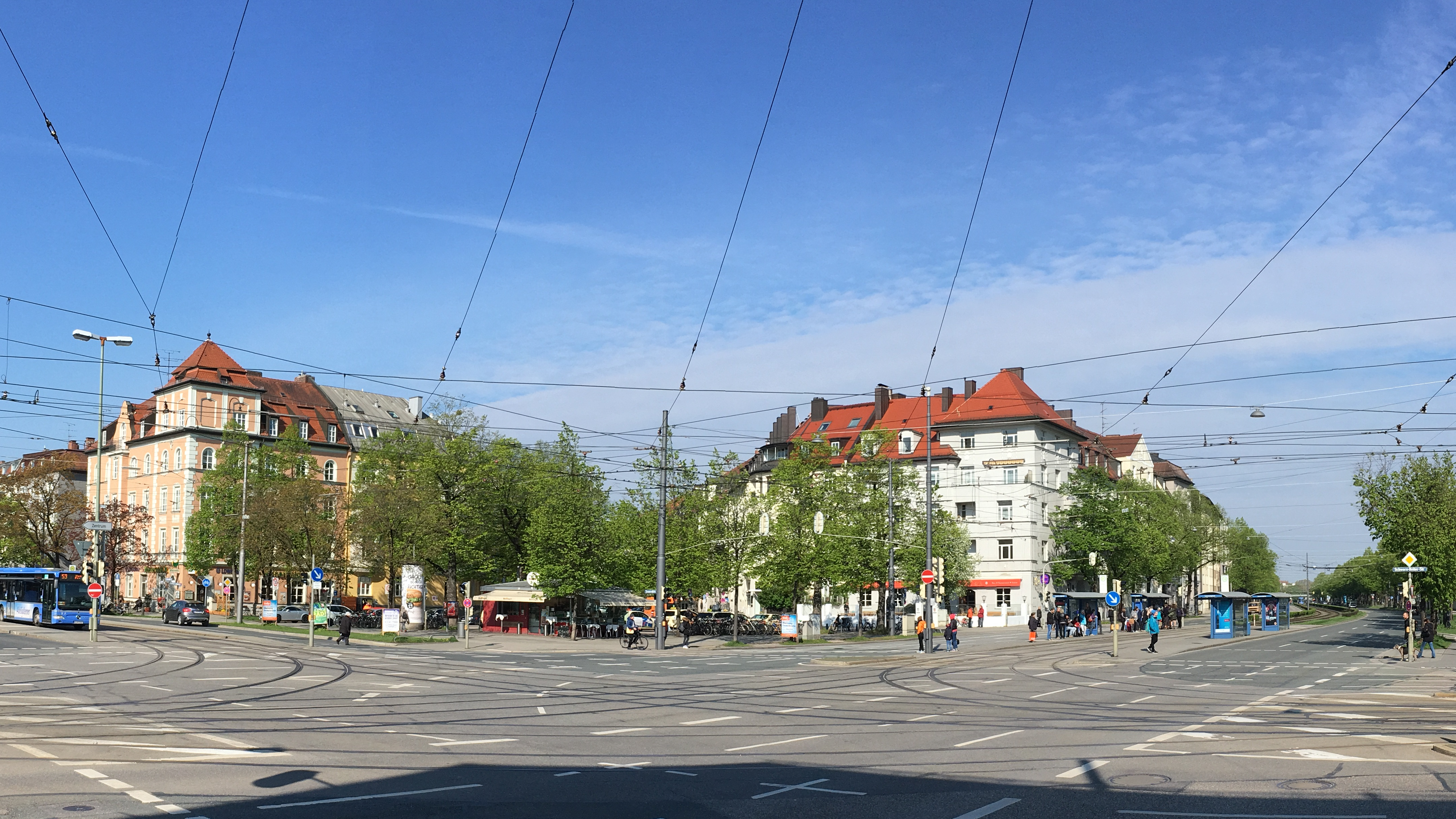 Leonrodplatz in Munich, Germany (April 2017)